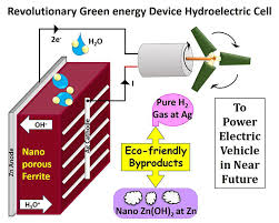 Working Mechanism Of Hydroelectric Cell (Representative)